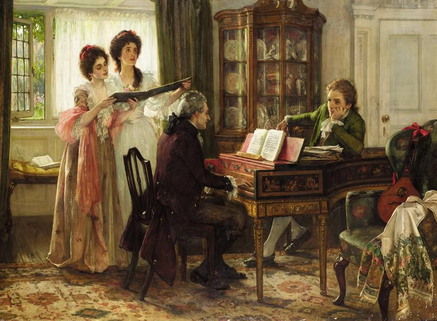 Sheridan at the Linleys. [ Sotheby's catalogue entry, 2004